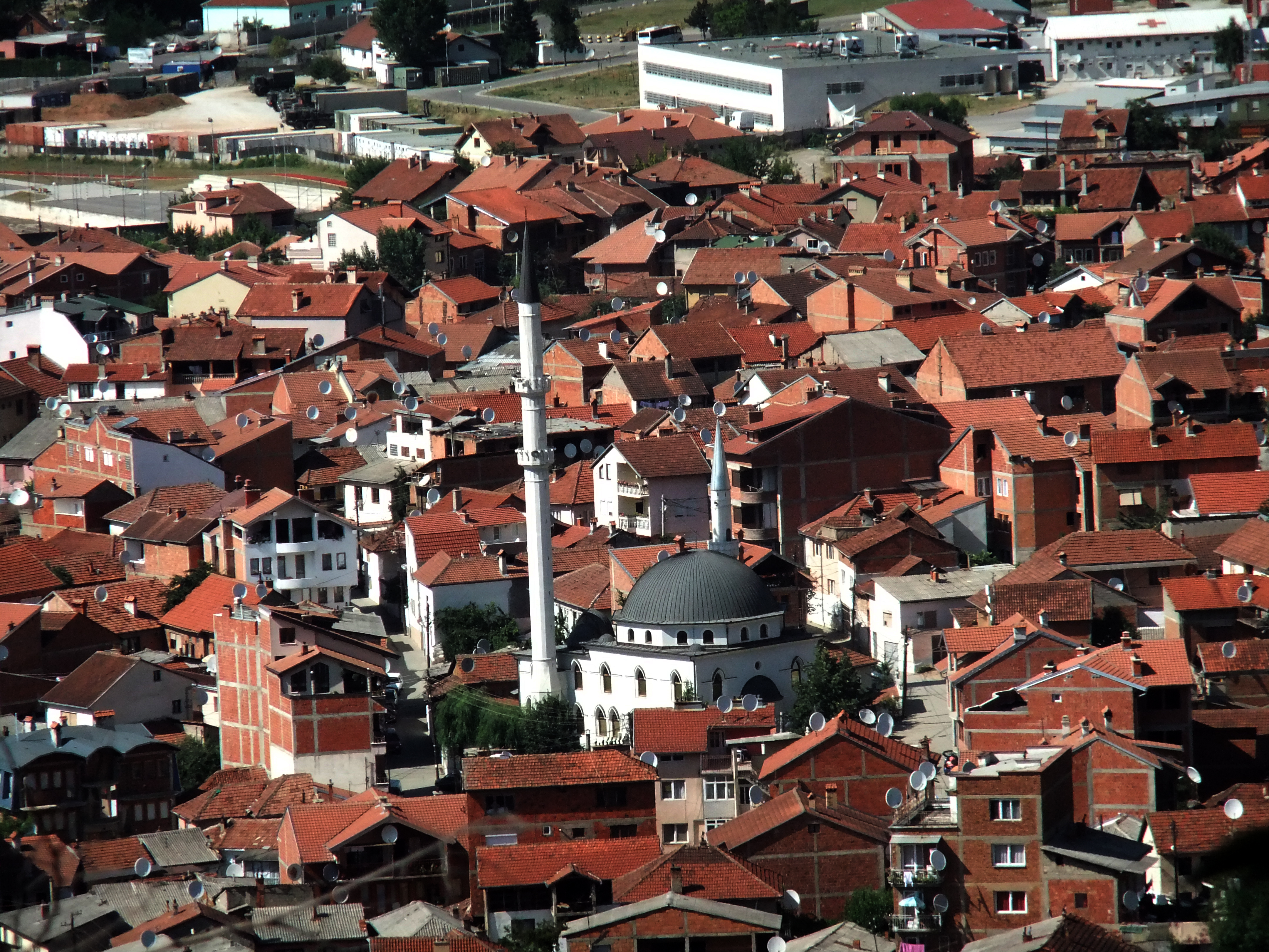 New mosque, Kurilla, Prizren, Kosovo